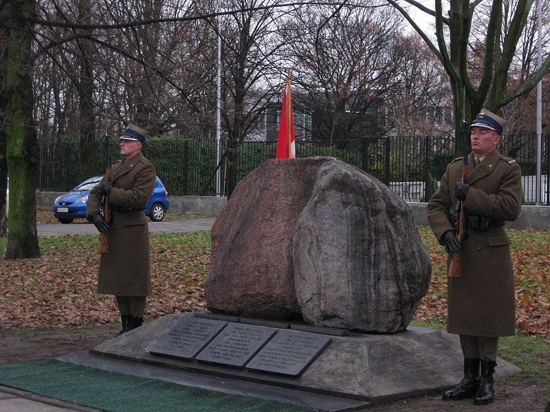 The Two Rocks monument at the Canadian embassy in Warsaw, Poland, commemorating the Canadian and Polish soldiers who fought side-by-side during the Second World War. One rock was taken from Wilno, Ontario, the other from the Kashubian region of Poland. Taken at the Embassy of Canada in Poland by staff, free for use by the general public.)